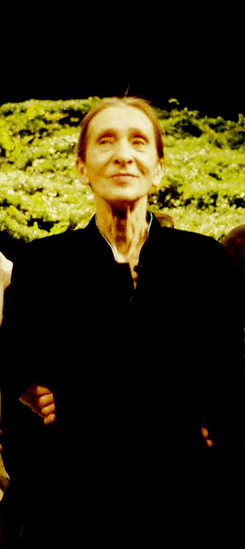 Pina bausch with her dancers at the Wiesenland show